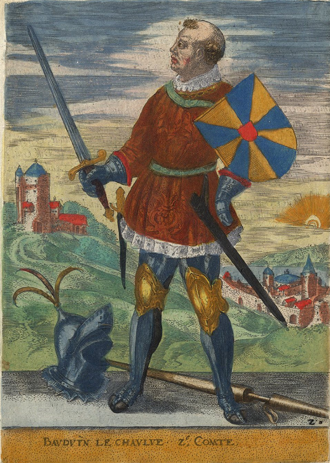 Baldwin the Bald, count of Flanders